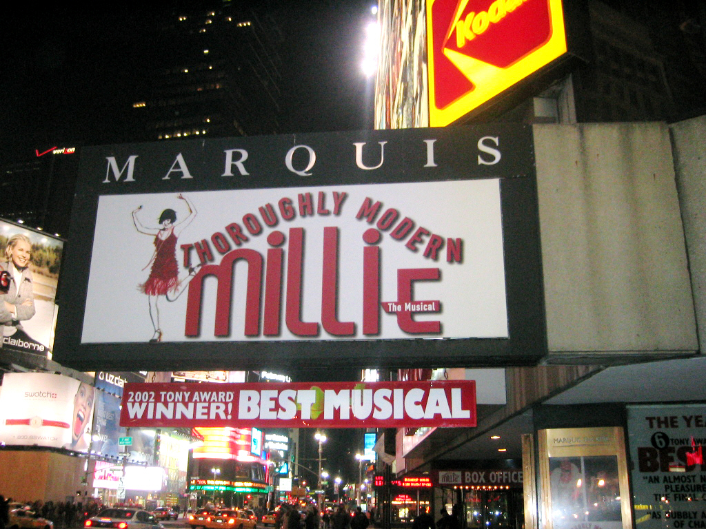 Marquis Theatre, showing Thoroughly Modern Millie Marriott Marquis Hotel, 1535 Broadway, Manhattan, New York City